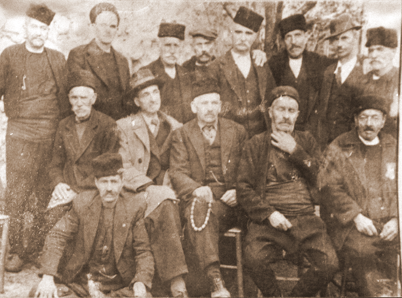 Bulgarian revolutionaries from Ilinden uprising from 1903 in Bansko, 1943